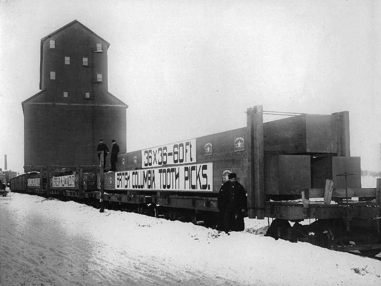 Photograph, British Columbia toothpicks, Montreal, QC, 1892, Wm. Notman & Son, Silver salts on glass - Gelatin dry plate process - 20 x 25 cm